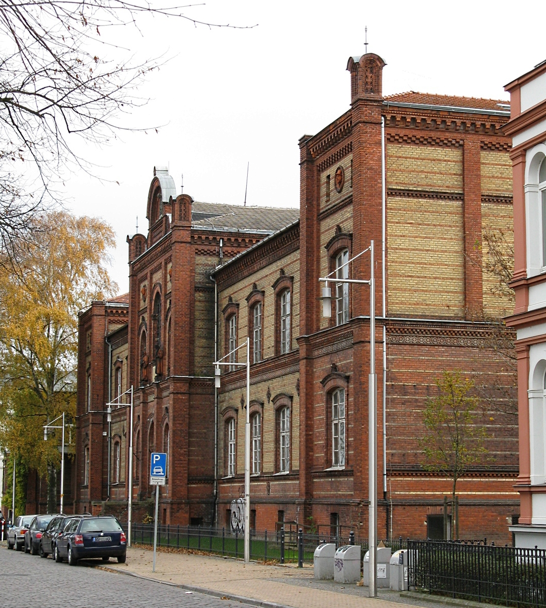 former school Fridericianum in Schwerin, Germany